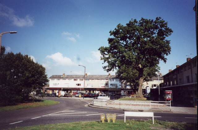 The shops in Langley Green